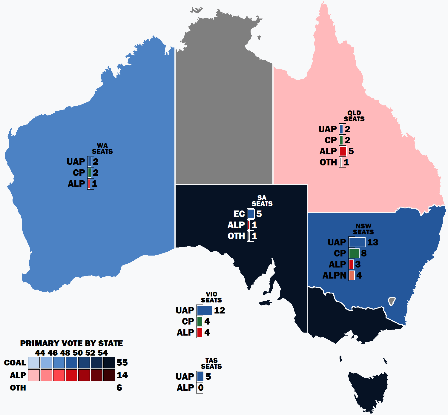 Result of the primary vote by state in the 1931 Australian federal election.